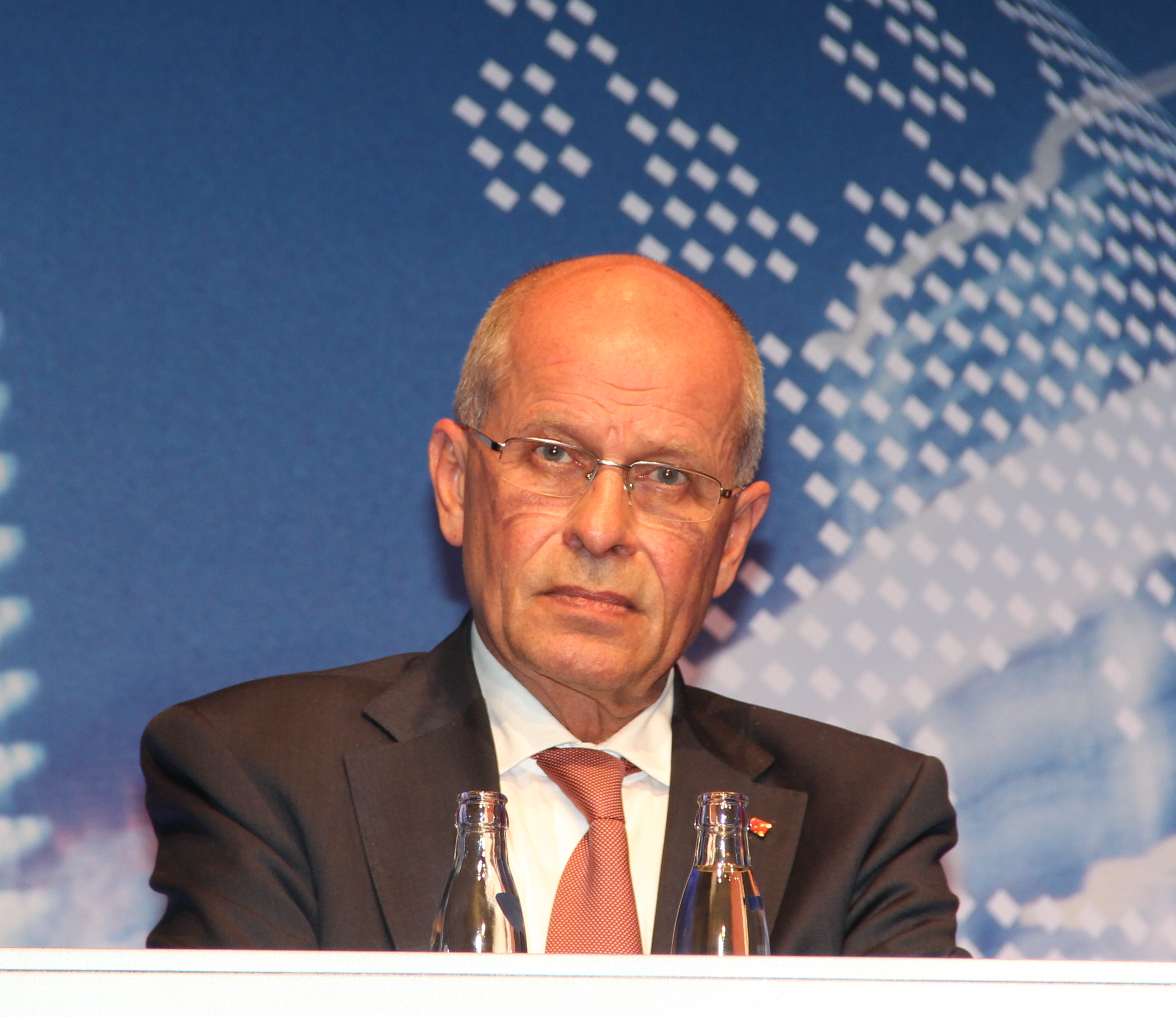 Berthold Huber, President of German trade union IG Metall